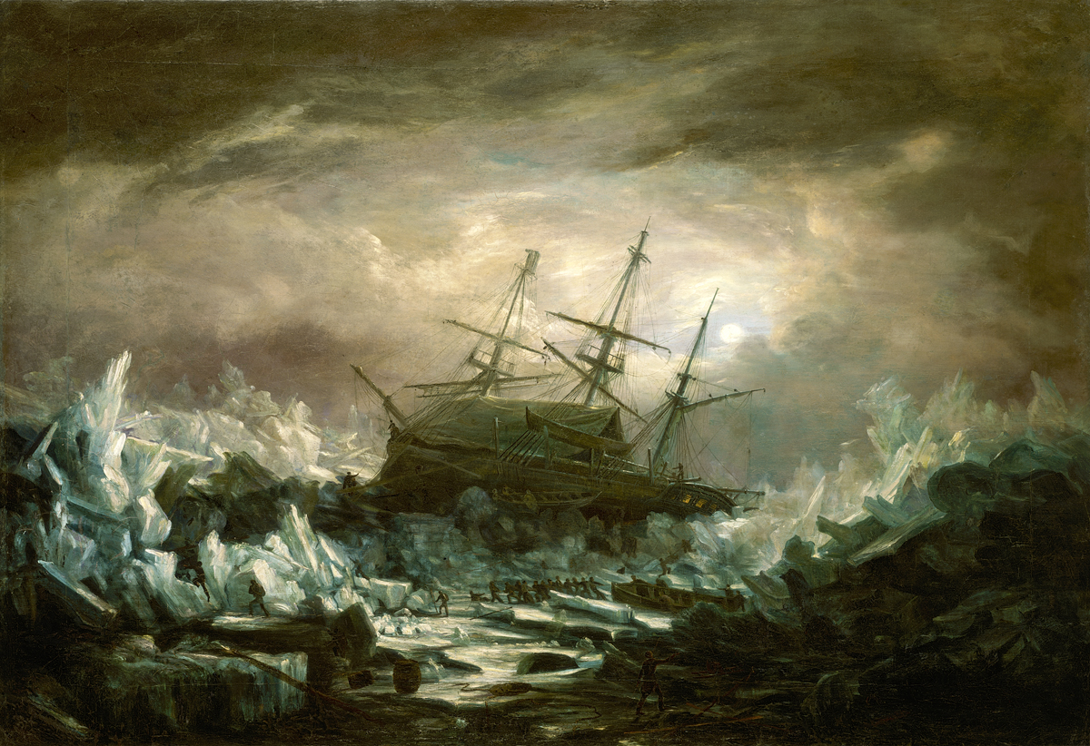 "Perilous Position of HMS 'Terror', Captain Back, in the Arctic Regions in the Summer of 1837".